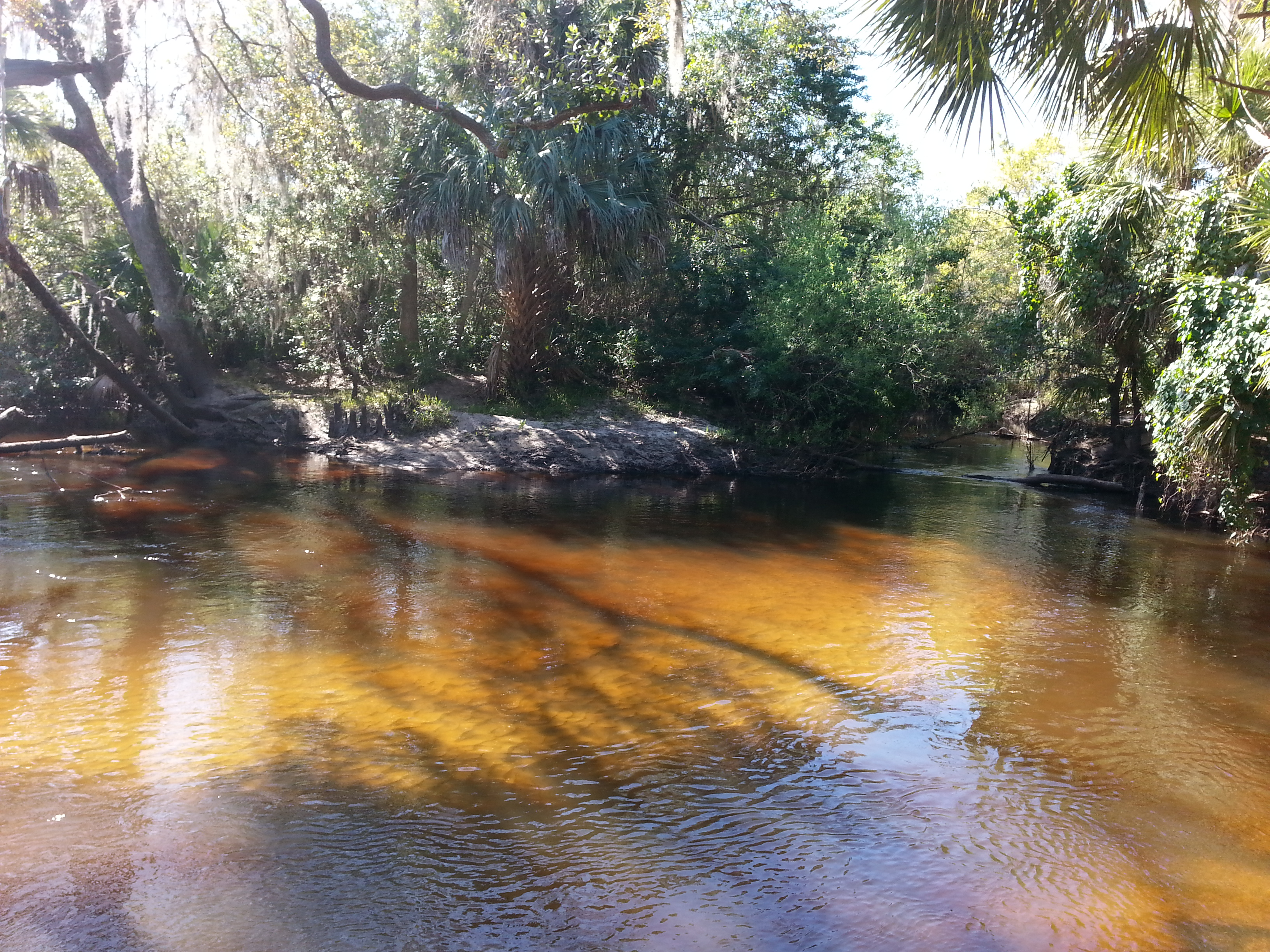 The St.Sebastian River from a viewing Area in Sebastian, Florida